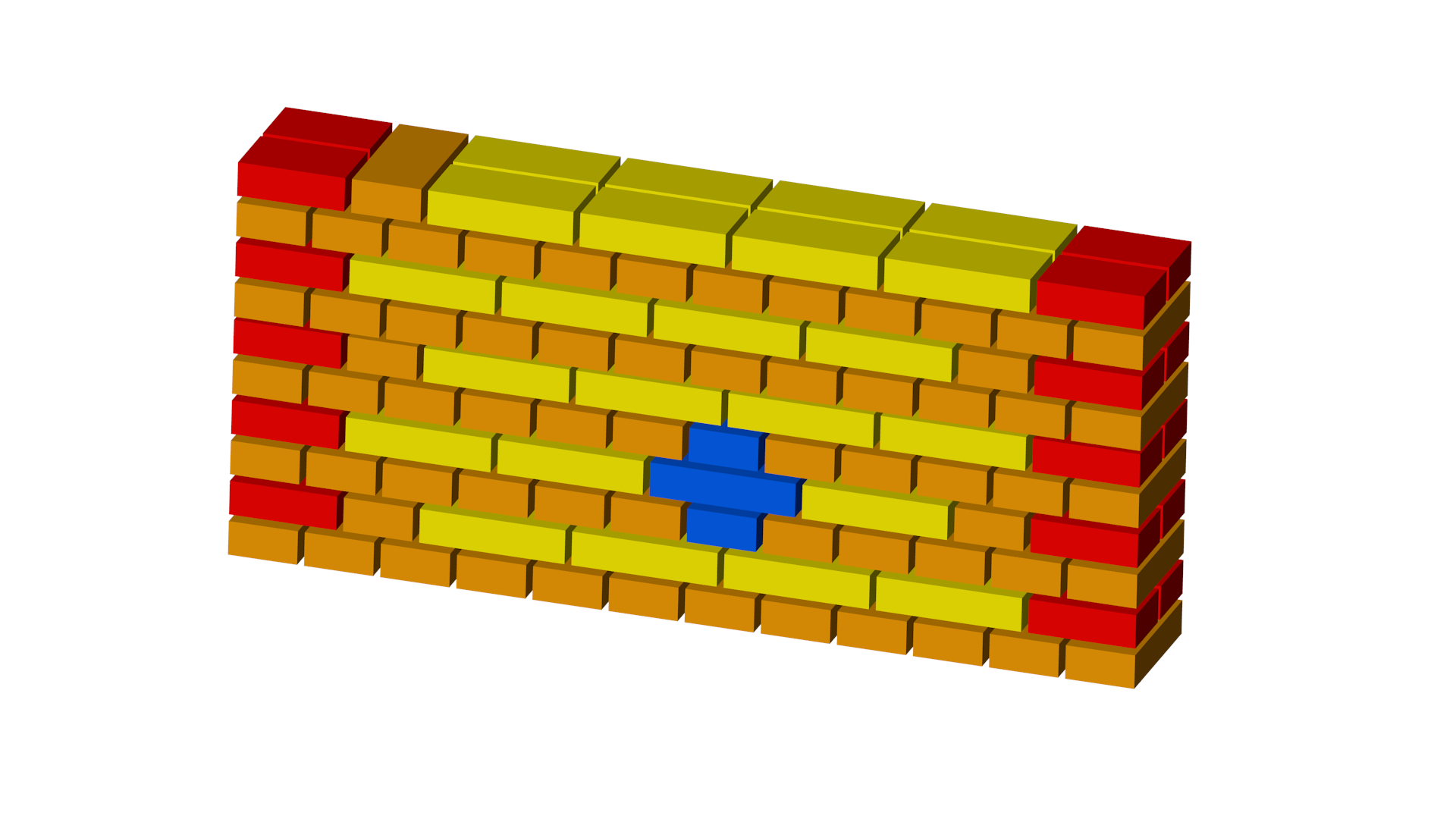 English cross bond